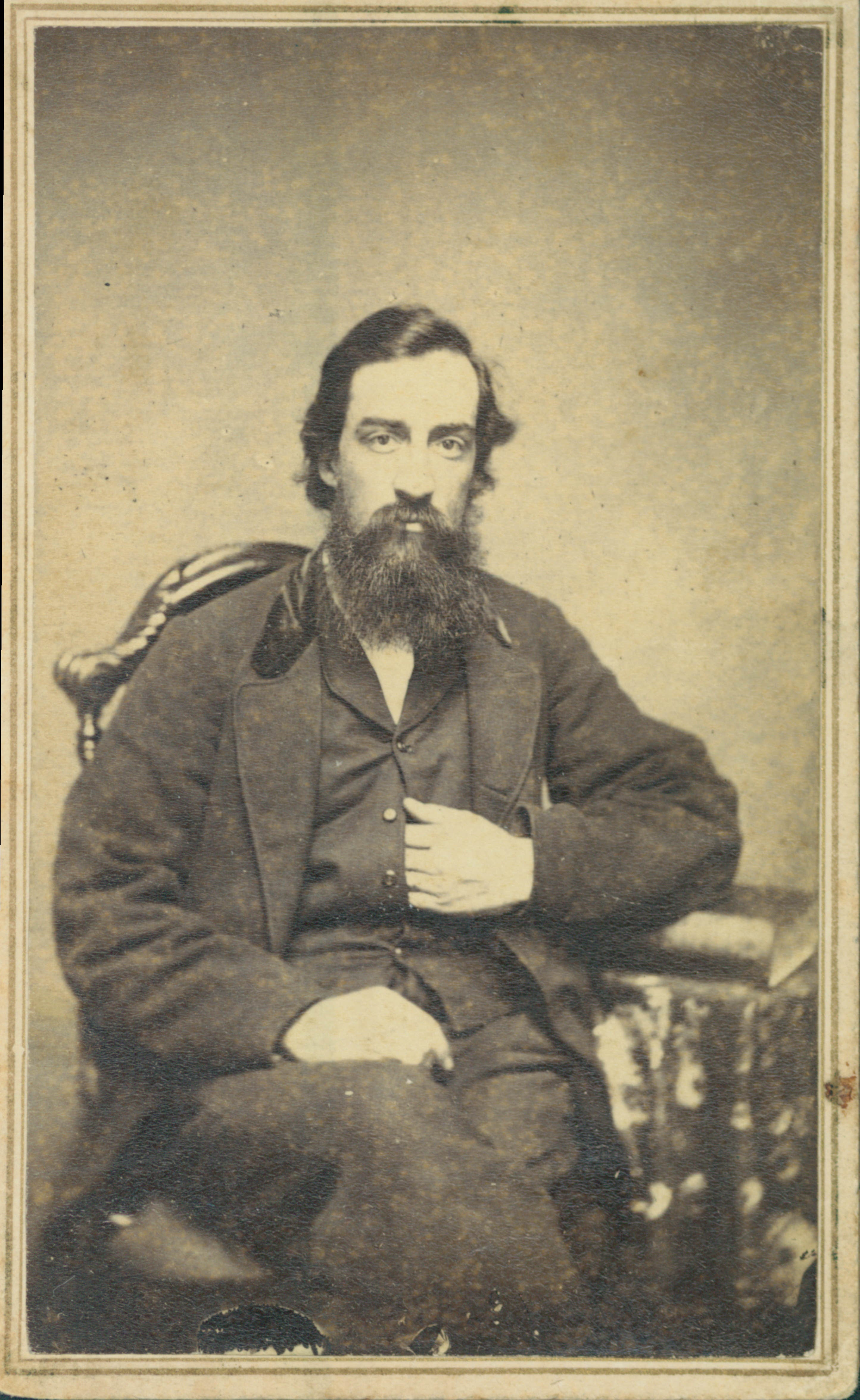 Joseph Smith III in a photography over 100 years old.